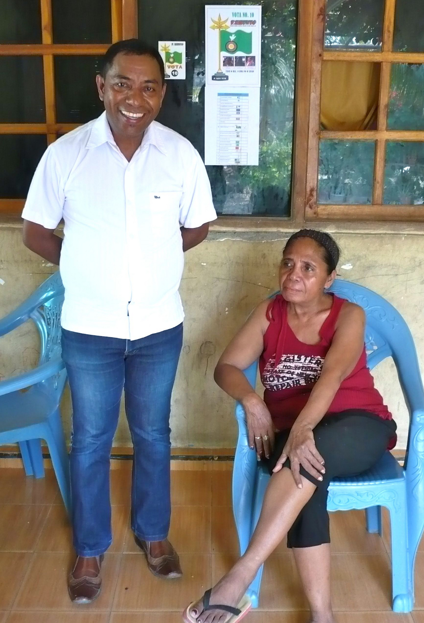 Vice-President Olinda Guterres (right) and Secretary General José Agustinho da Silva of the political party Khunto at their party office in Dili, Timor-Leste